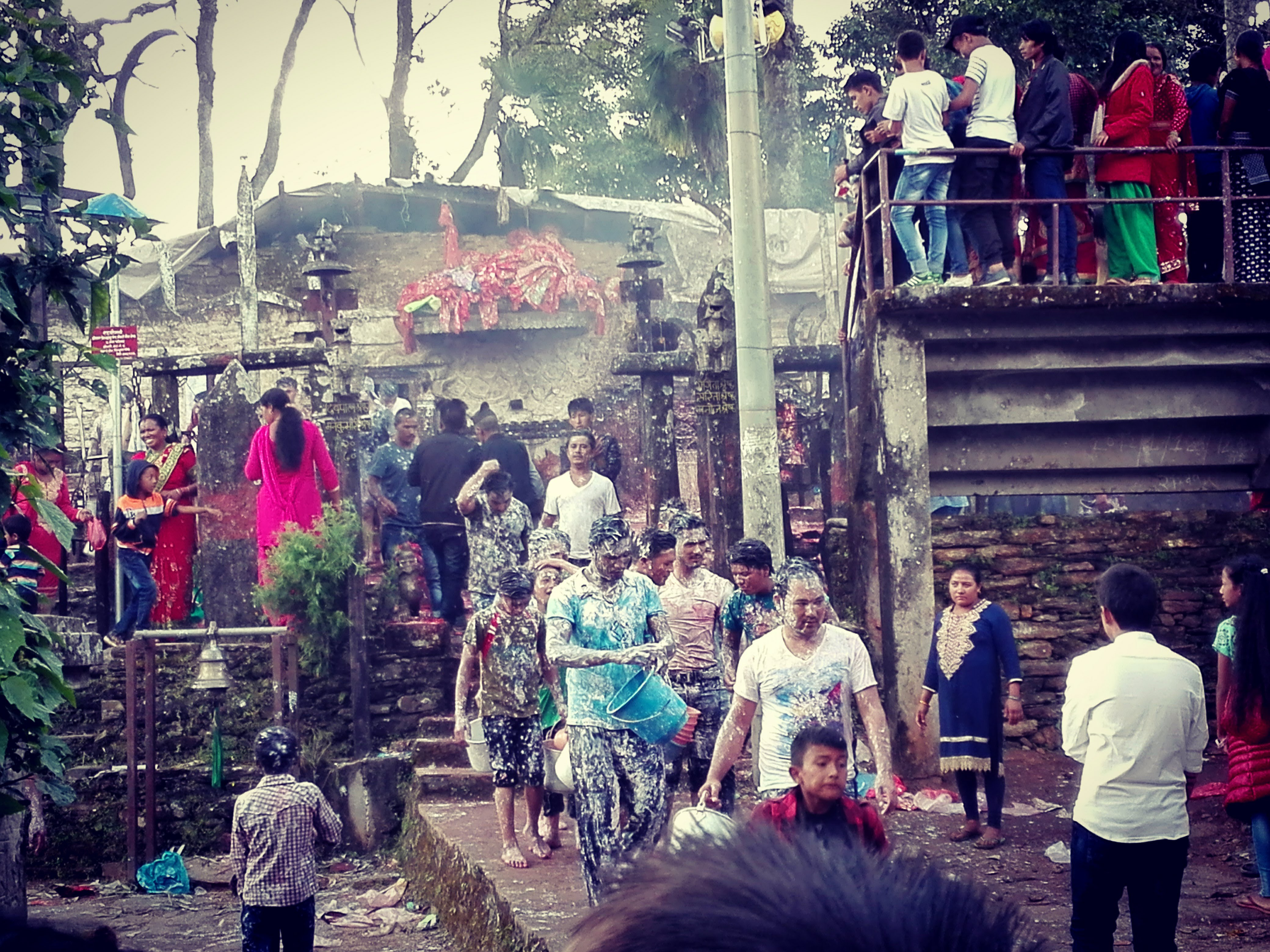 boys playing with curd